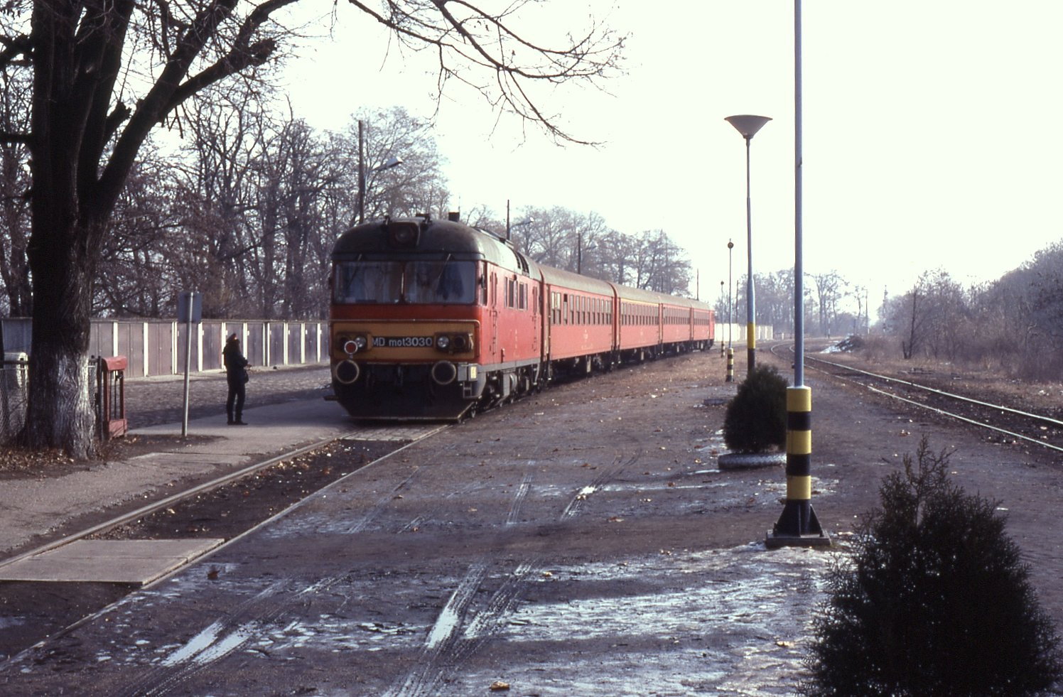 MDmot 3030 seen on a cold February morning in 1993. Train 37015,11:30 Újszeged to Mezőhegyes. Date taken, 11 February 1993.